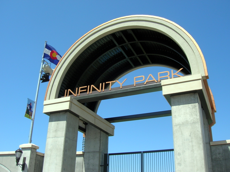 A view of the entrance to Infinity Park in Glendale, CO.